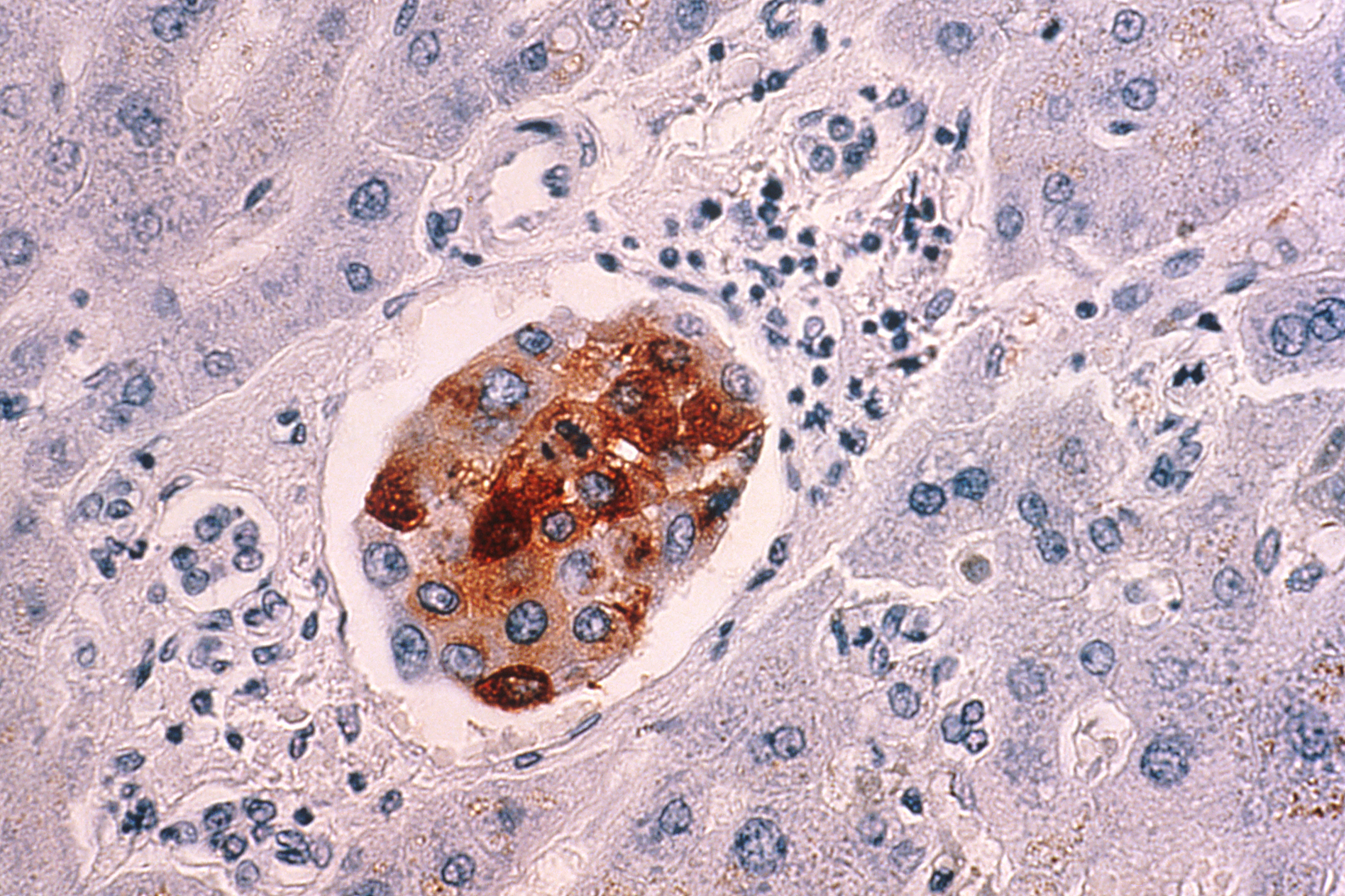 Title Breast Cancer Metastasis to Liver Description The malignant breast cancer cells metastasized to the liver. A cluster of the cancer-cells with their brown-staining cytoplasm is within a portal tract of the liver (monoclonal antibody b1.1, abc immunoperoxidase method, hematoxylin counterstain, x500). Topics/Categories Cancer Types -- Breast Cancer Cells or Tissue -- Abnormal Cells or Tissue Type Color, Photo Source National Cancer Institute